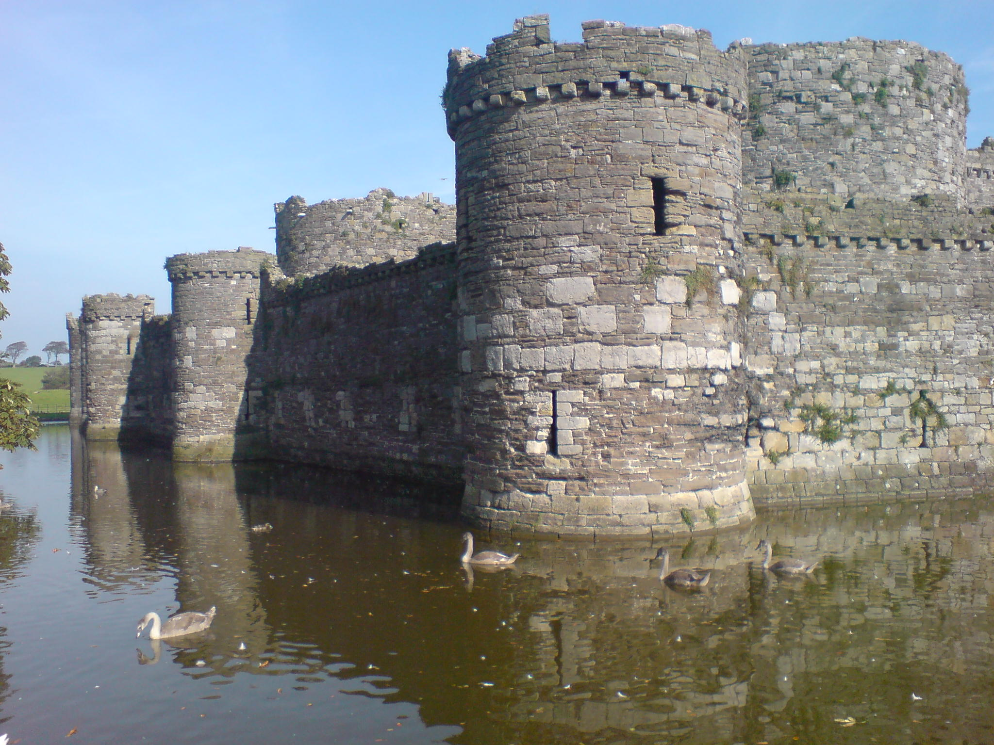 Beaumaris Castle in Anglesey North Wales, UK.